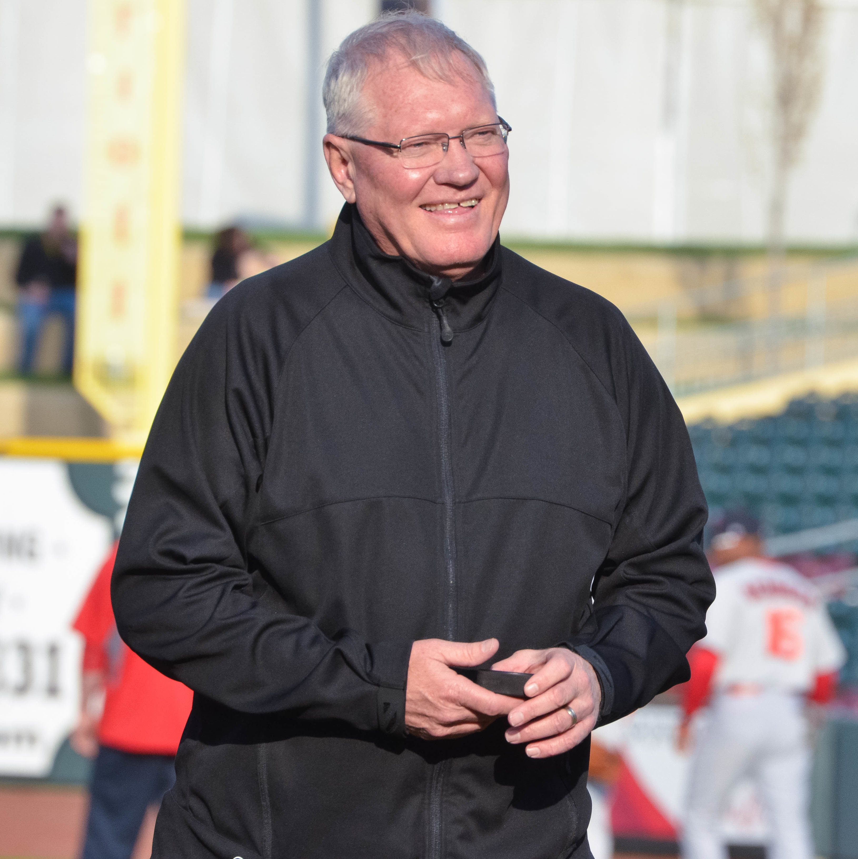 Omaha Mavericks men's ice hockey coach Dean Blais at Werner Park in Omaha in 2015